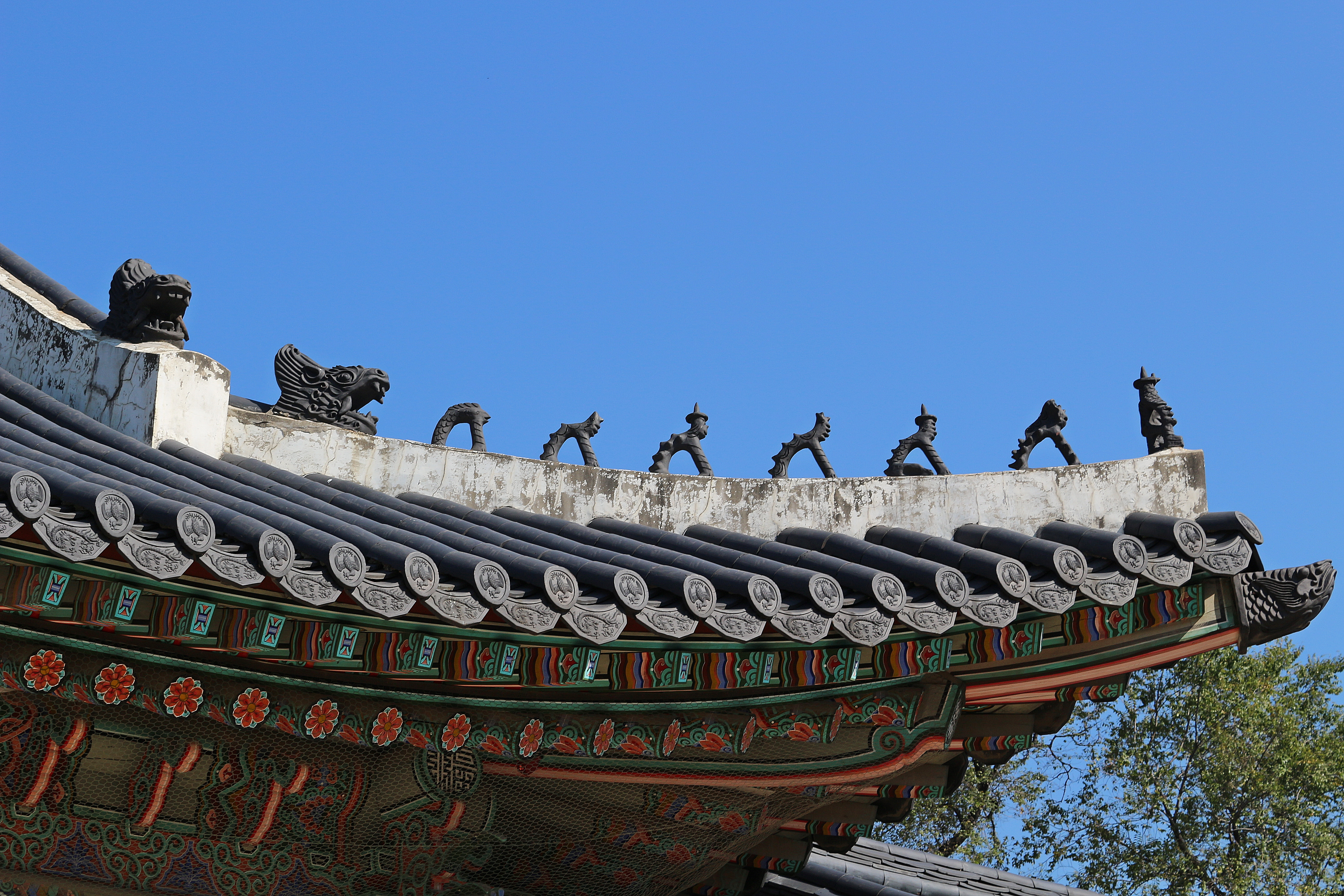 The 'Jab-Sang', which is loacated upper loof. It's made, hoping them guard the palace.